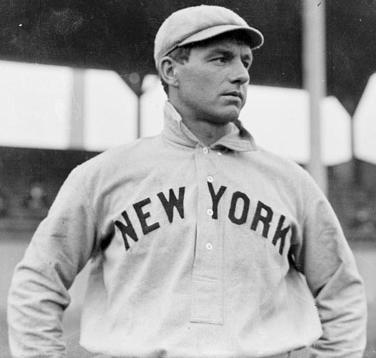 Joe McGinnity of the New York Giants at the West Side Grounds in 1905. Note: image cropped from original photo. Explanation for public domain: copyright expired.